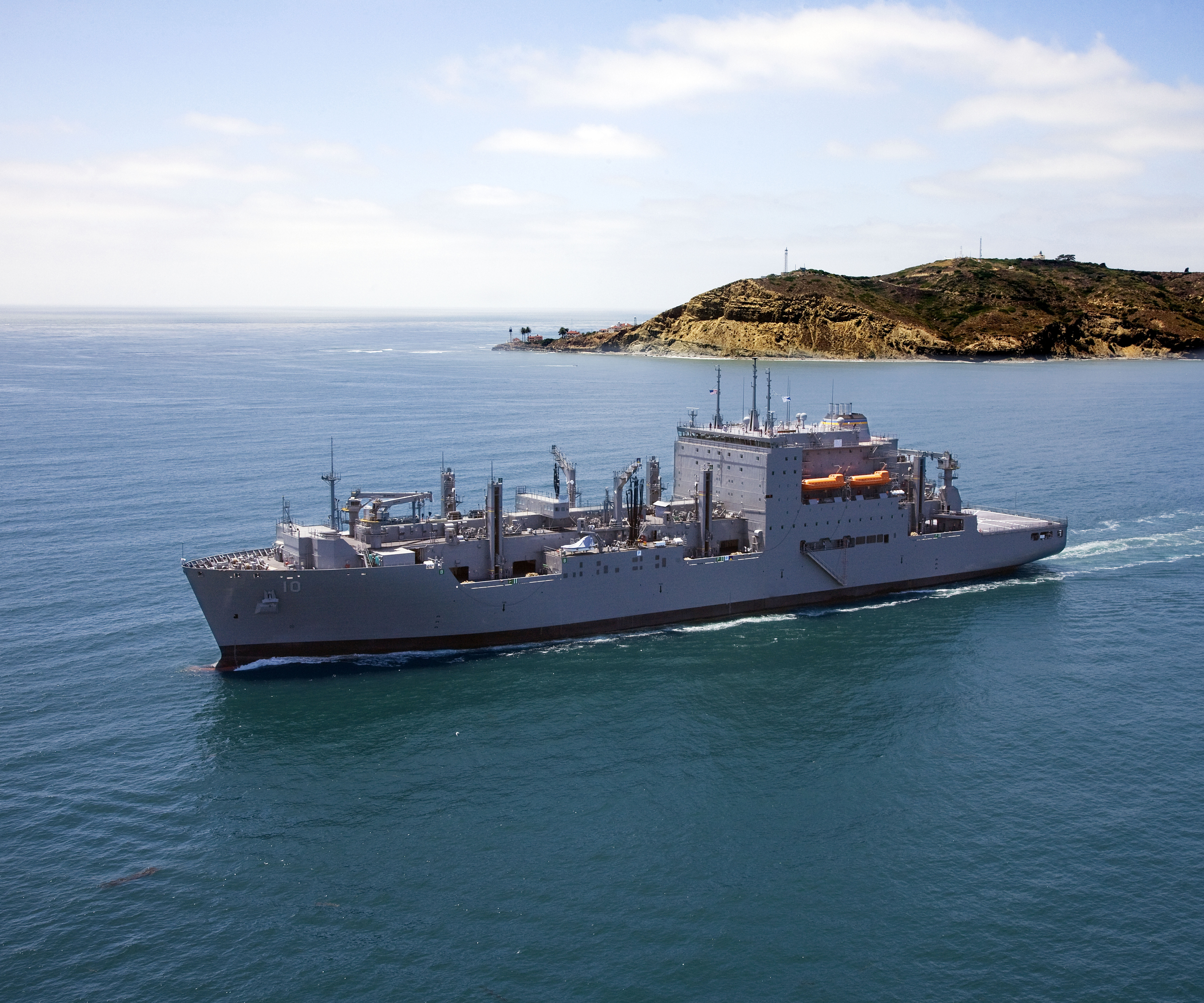 Charles Drew. USNS Amelia Earhart